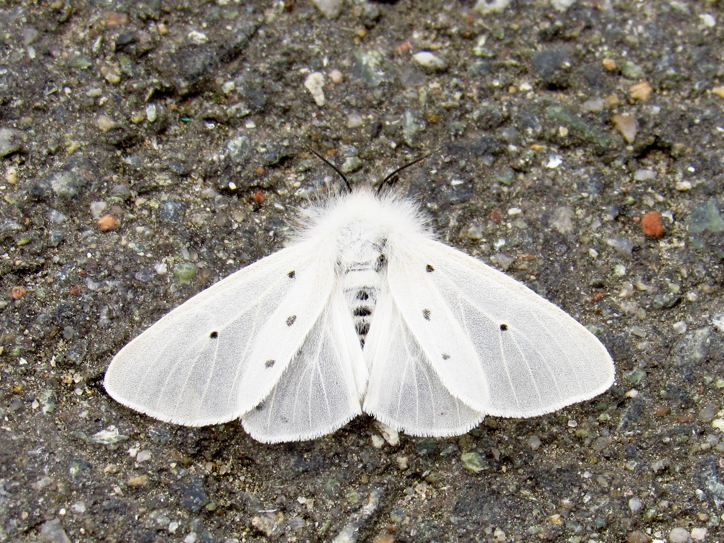 the Muslin Moth (female)